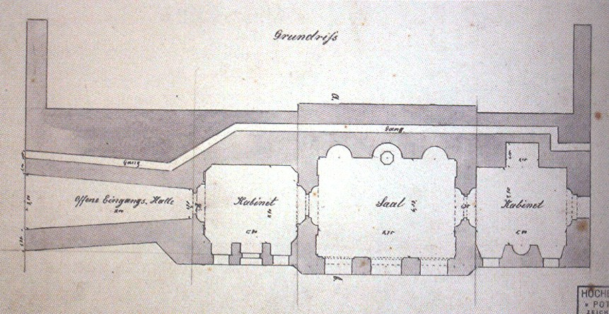 Floor plan of the shell grotto in the New Garden, Potsdam, Germany